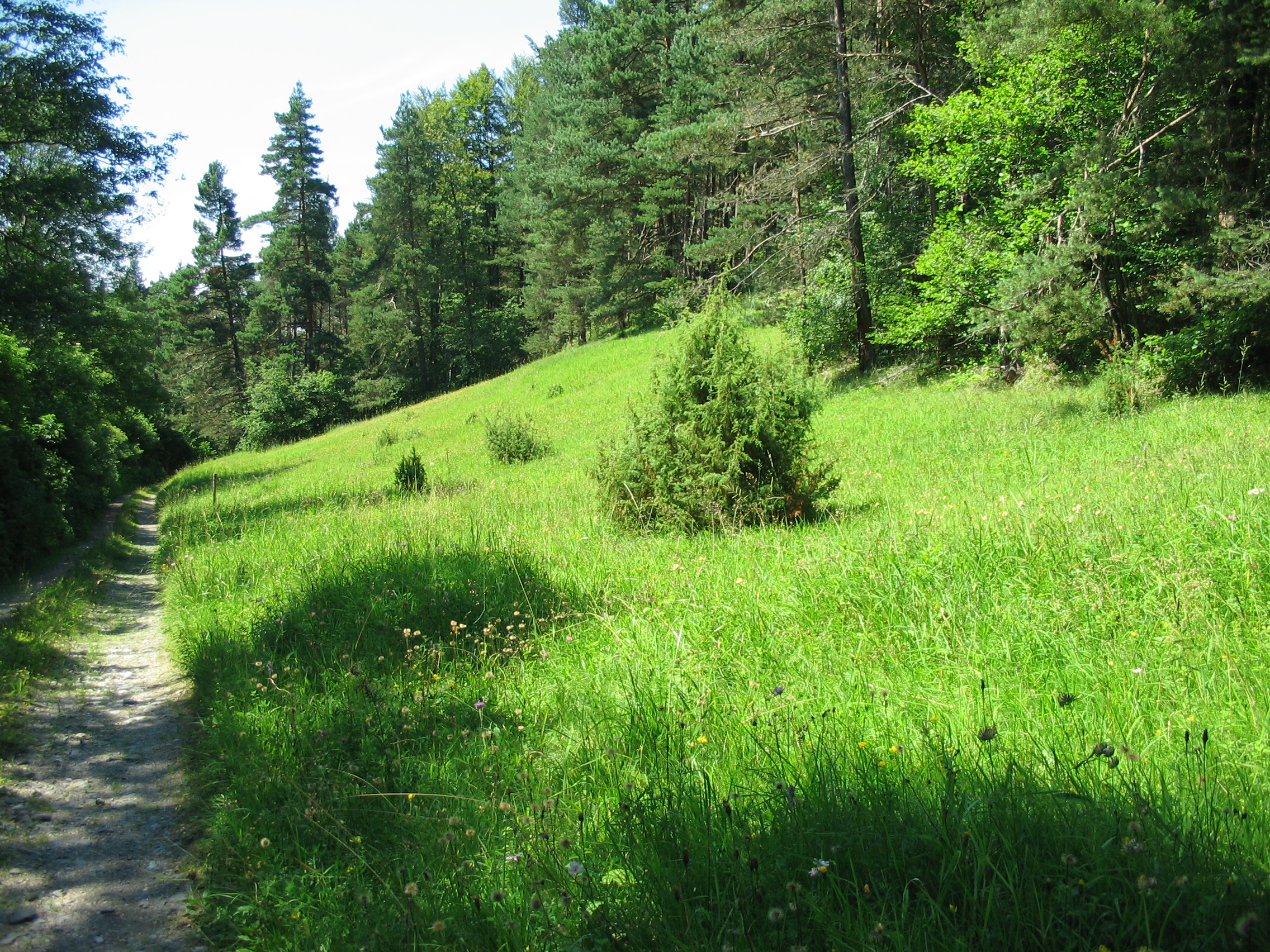 Milčice nature reserve, Klatovy District, Czech Republic